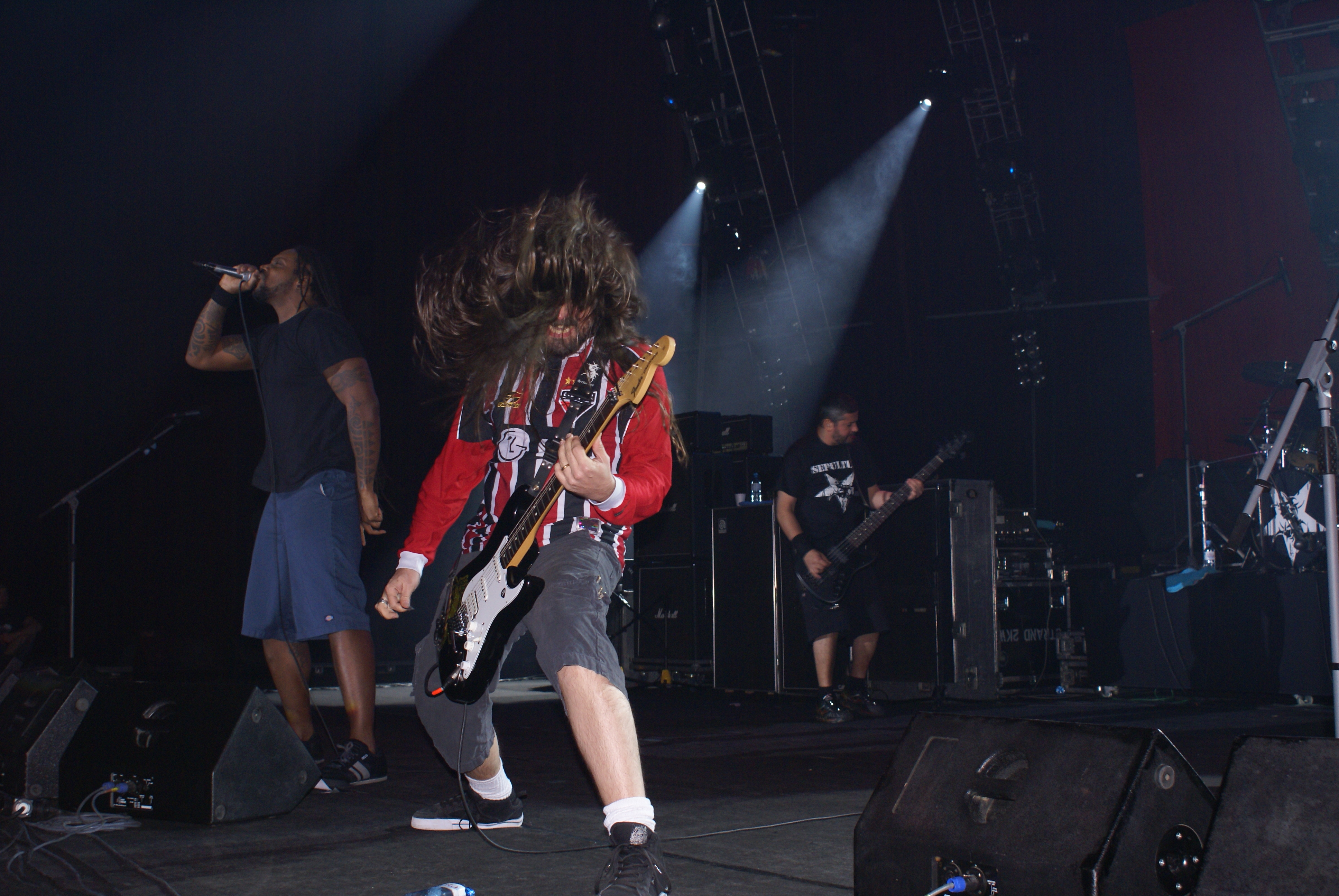 Metal band Sepultura during Metalmania 2007 festival